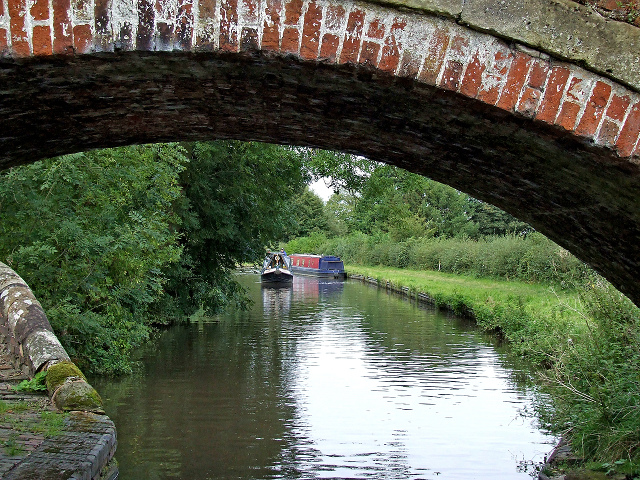 Photograph shot through Milford Bridge, Staffordshire. This turnover bridge enabled horses to cross the canal without being unhitched from the boat whenever the towpath changed sides. The bridge is on the Staffordshire and Worcestershire Canal, east of Stafford. Courtesy of